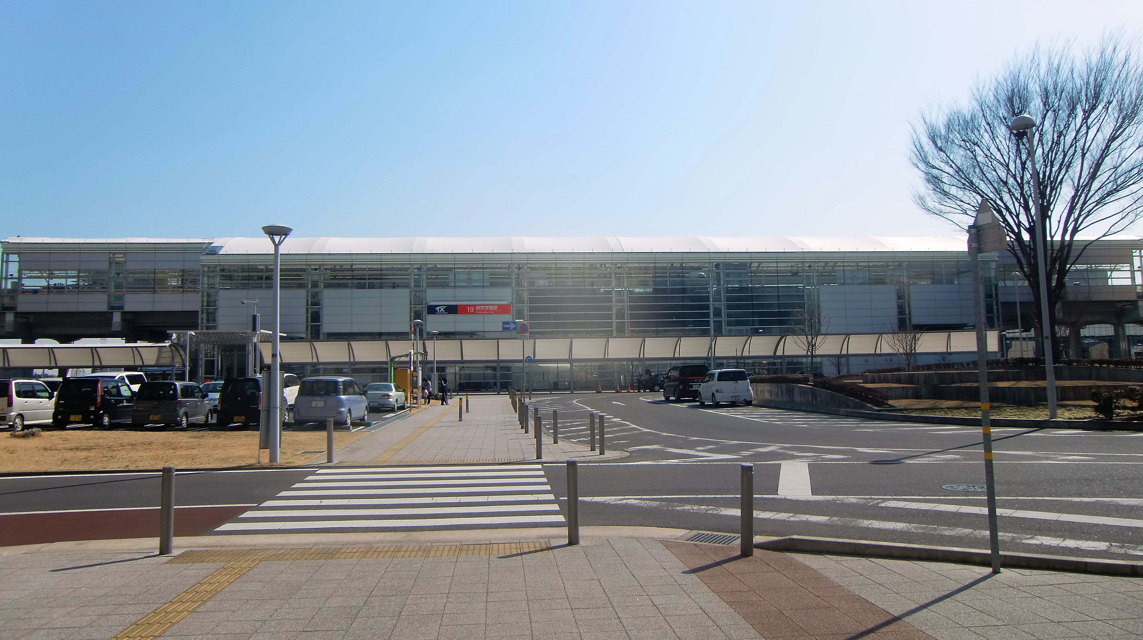 Tsukuba Express line Kenkyū-gakuen Station North side in Kenkyūgakuen, Tsukuba city, Ibaraki prefecture, Japan.